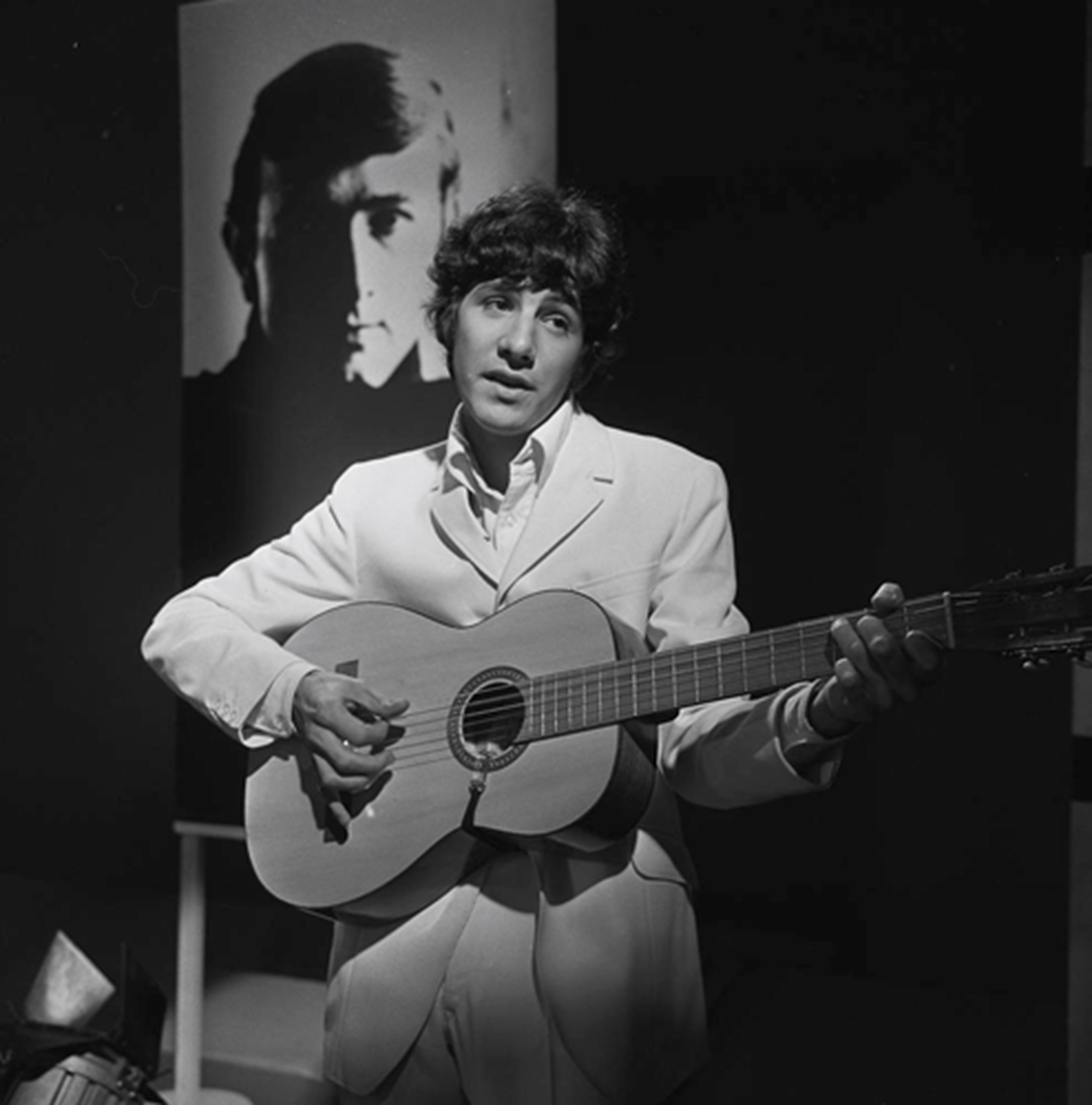 Cat Stevens singing "Portobello Road" and "I love my dog". Dutch TV programme "Fanclub". Recording date 15 October 1966, broadcast date 21 October 1966.